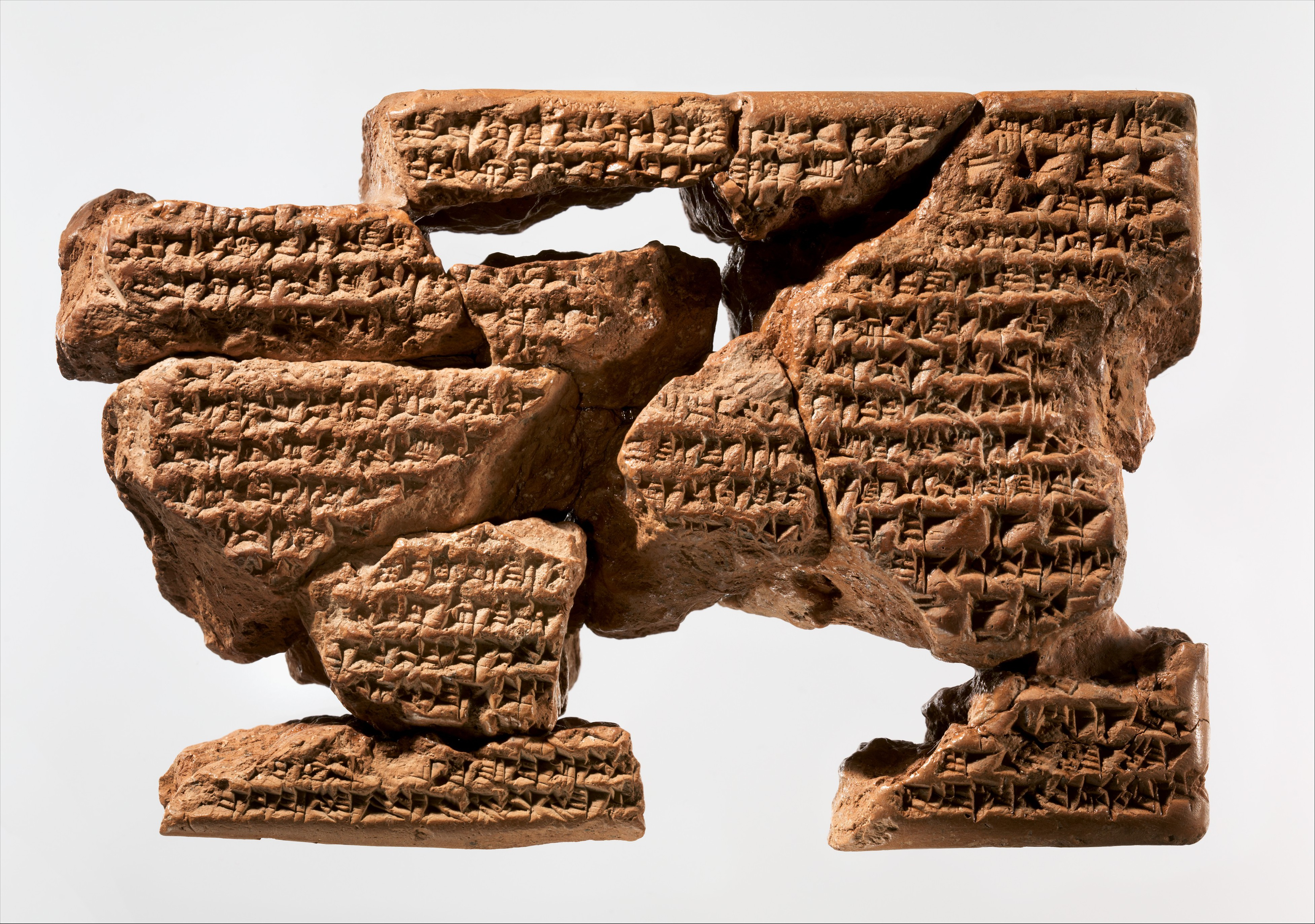 Seleucid; Cuneiform tablet; Clay-Tablets-Inscribed